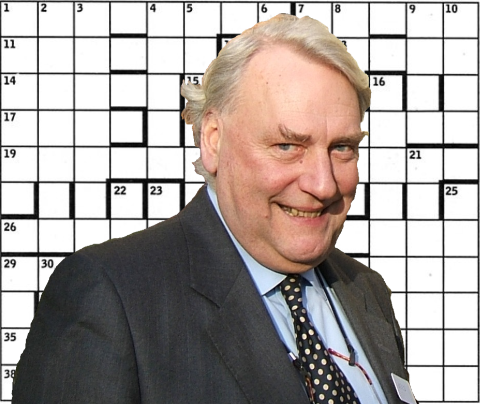 Head-and-shoulders photograph of Azed (Jonathan Crowther) taken at the Azed 1750 Luncheon, held at Balliol College, Oxford, England in December 2005, cut out and collaged onto a background of one of his crossword grids.